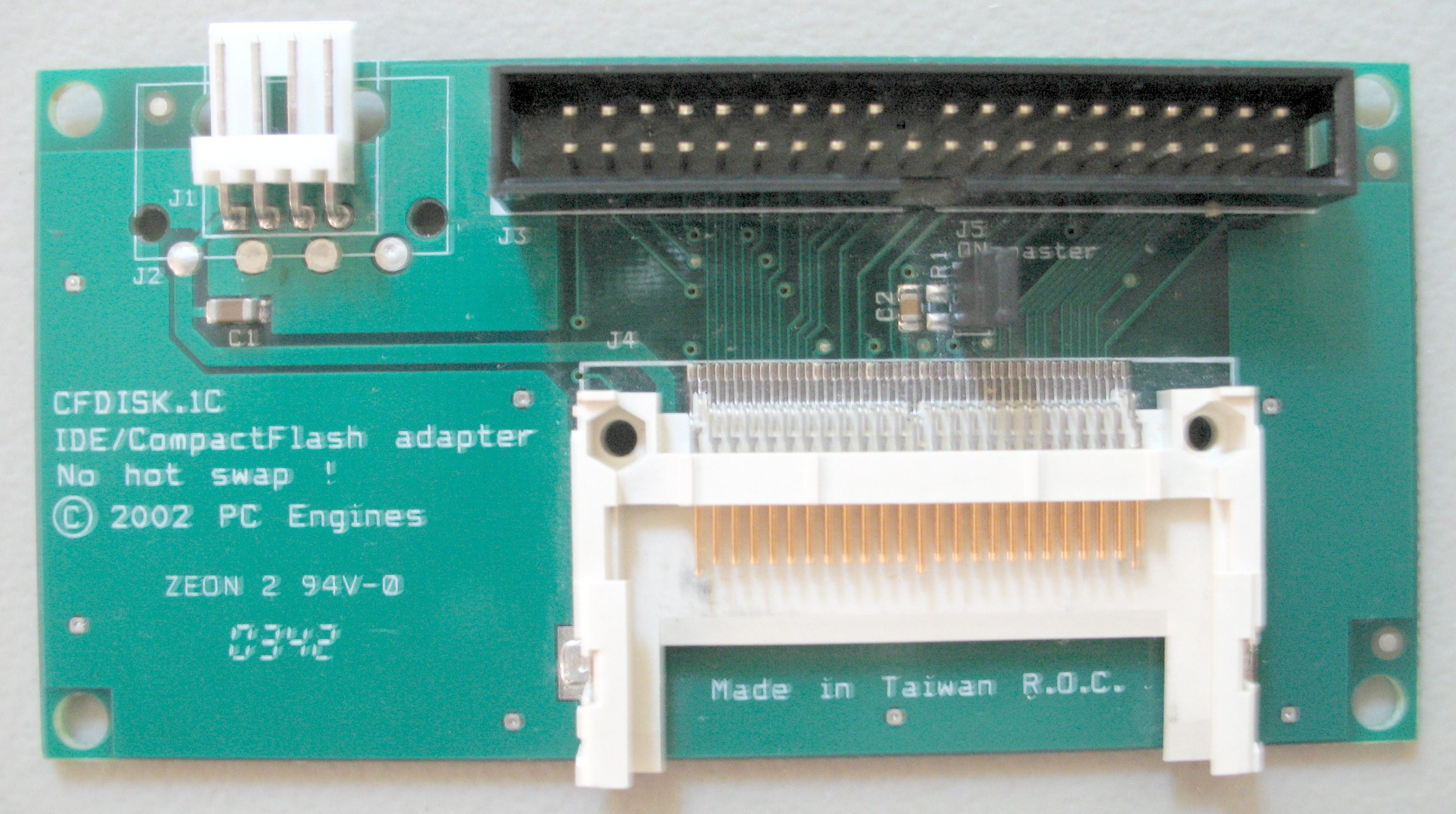 Compact Flash is just a miniature IDE-ATA interface, as shown in this image. Since the IDE interface does not normally supply power to connected devices, power for the CF connector is supplied from a separate floppy drive power connector on this board. As shown here, it is possible to specify if the flash card will be recognized as either a Master or Slave device using the board jumper, though this is not normally offered as on option on most CF connectors. It would appear to be theoretically possible to plug a standard hard drive into a compact flash socket, using a similarly wired CF card to IDE cable. However, this has limited usefulness since a full size drive would likely require more voltage and current than the CF socket can provide.